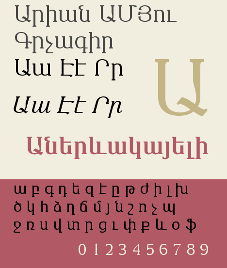 The specimen of Arian AMU Serif font.